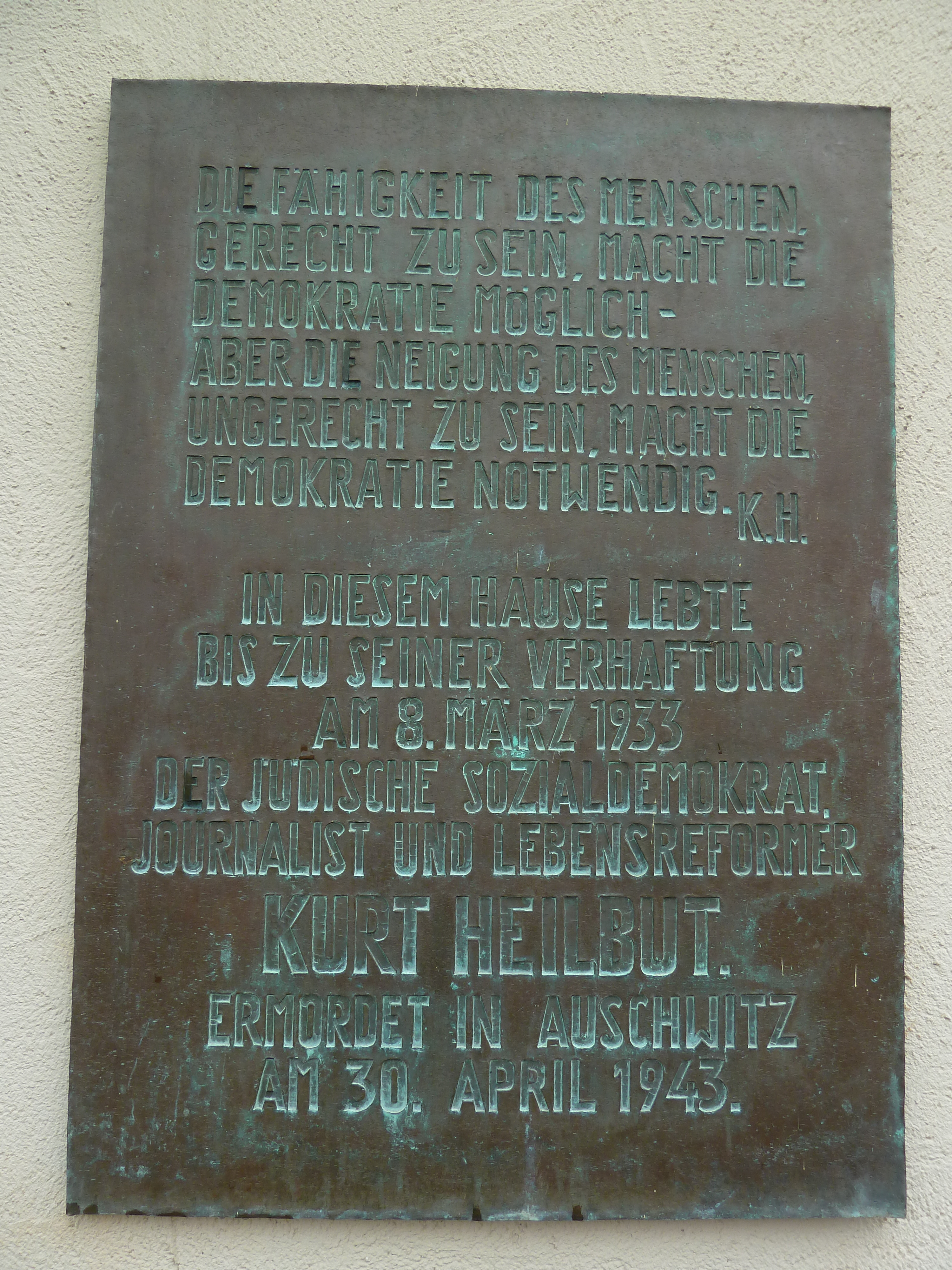 In this house Südstrasse 20, Freital-Deuben, Germany dwelt the German Jewish journalist Kurt Heilbut (* December 21, 1888 – † April 30, 1943, murdered by Nazis in Auschwitz) until his detention on March 8, 1933. The citation means: "The capability of mankind to give justice makes democracy possible and its indulgence in injustice makes democracy imperative. K.H."